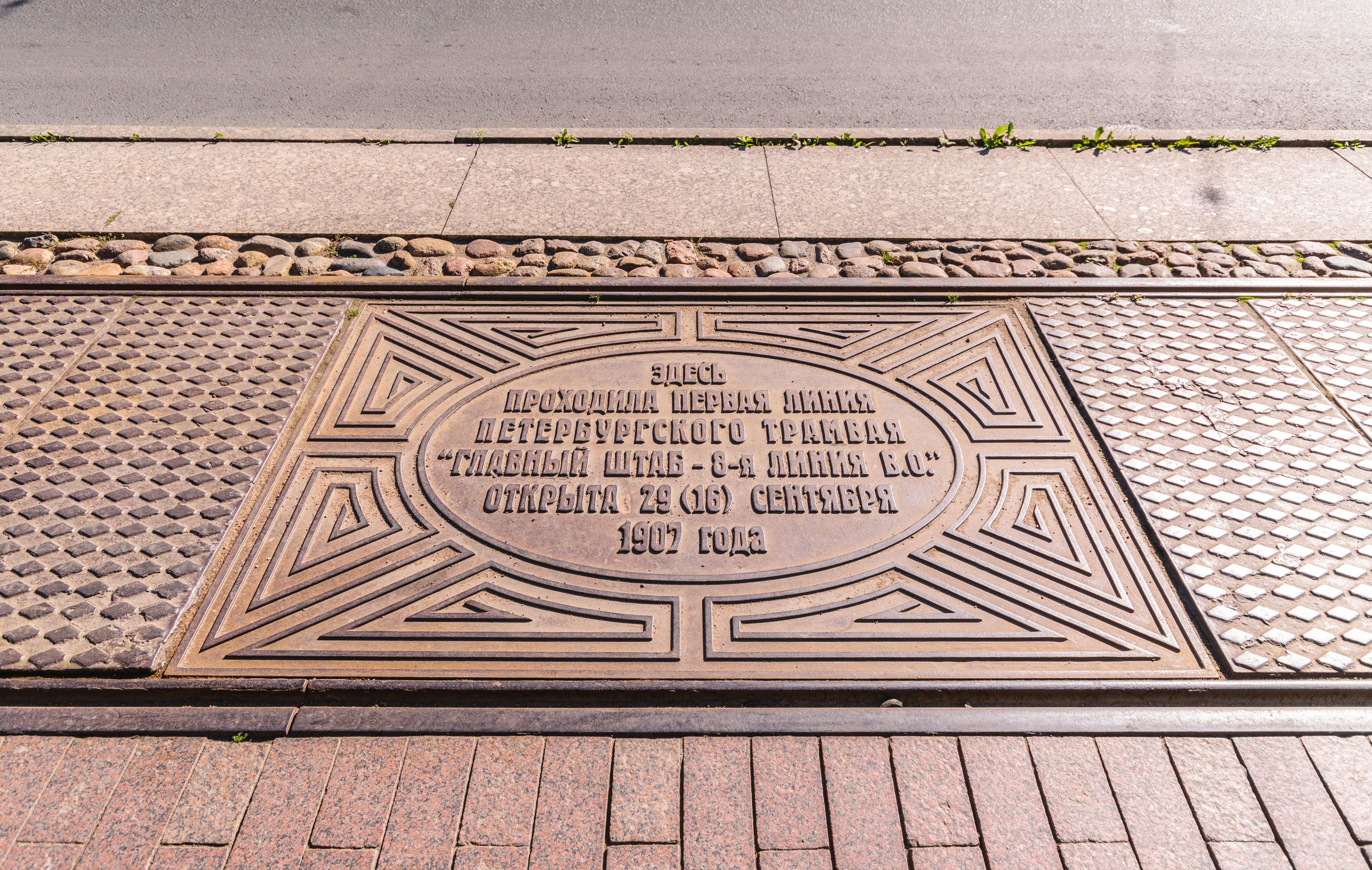 First Tram Route Memorial on Admiralteisky Avenue in Saint Petersburg